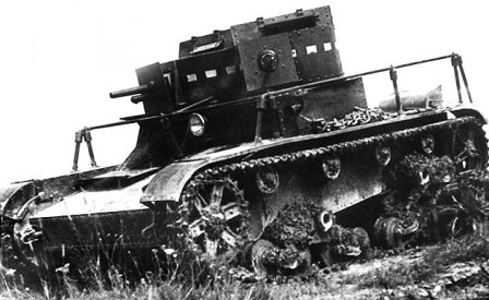 Twin-turreted T-26 light tank with a radio station